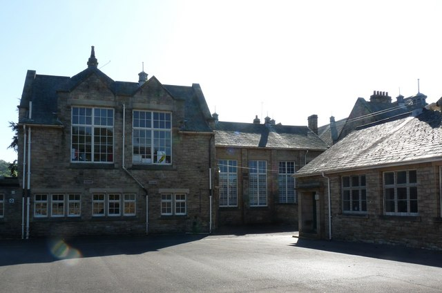 School in Wolsingham This is currently part of Wolsingham School & Community College, Lower School Site. This is the rear of the building.